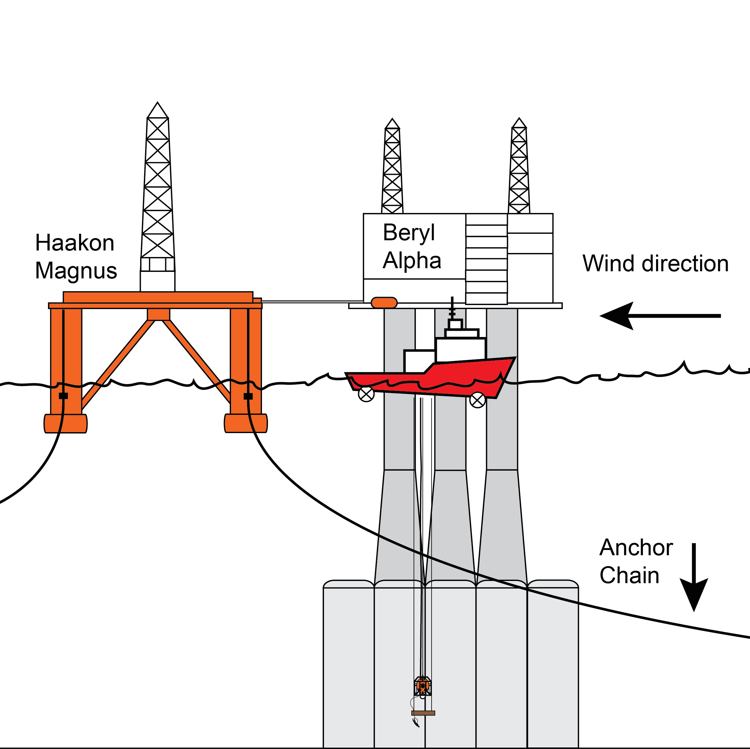 Shows position of the Canopus prior to the accident.